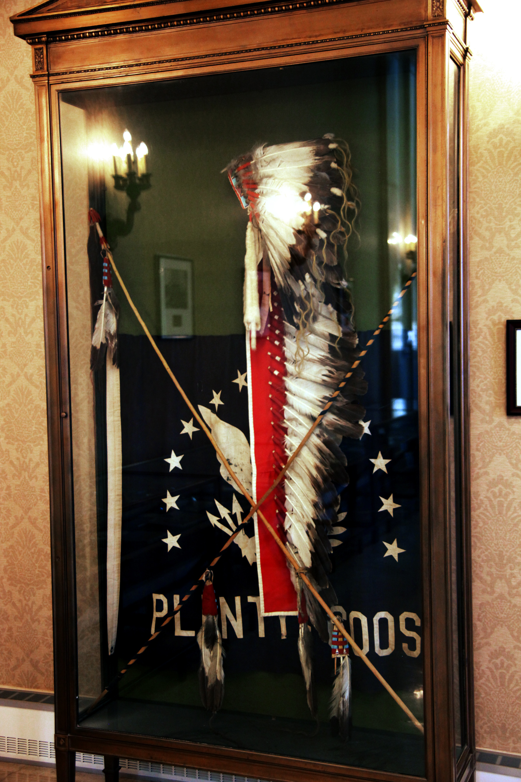 The war-bonnet and coup-sticks given by Apsáalooke (Crow Nation) chief Aleek-chea-ahoosh (transliterated into English as "Plenty Coups") to the Unknown Soldier of World War I during the individual's burial in the Tomb of the Unknown Solider at Arlington National Cemetery in 1921. This is on display in the Memorial Display Room in the Memorial Amphitheater at Arlington National Cemetery near Washington, D.C., in the United States. Originally designed to be a reception hall, this part of Memorial Amphitheater was turned into display area at some point after the amphitheater was dedicated in 1920. The south and north halls contain display cases which contain flags, medals, citations, and other awards given by the United States and other countries to the Unknowns who lie in the vaults at the Tomb of the Unknown Solider. Honors given to the Unknowns at the time of their burial are located mostly in the south hall. The north hall also contains the honors given by Aleek-chea-ahoosh to the World War I Unknown in 1921. Chief of the Apsáalooke at the time, Aleek-chea-ahoosh was the sole Native American representative at the dedication of the Tomb of the Unknown Soldier. He was dressed in full war regalia and carried two coup-sticks. He gave a speech in his native tongue in honor of the soldier and the occasion. He said: "For the Indians of America, I call upon the Great Spirit of the Red Men with gesture and chant and tribal tongue, that the dead have not died in vain, that war might end, that peace be purchased by the blood of Red men and White." He then removed his war-bonnet and coup-stick and laid them on the tomb. Before the Unknown was lowered into the burial vault, these items -- as well as the U.S. flag and the many war medals bestowed by other nations -- were removed. They are preserved and on display in the Memorial Display Room. The Memorial Display Room occupies most of the ground floor of the west side of Memorial Amphitheater. It is open to the public.